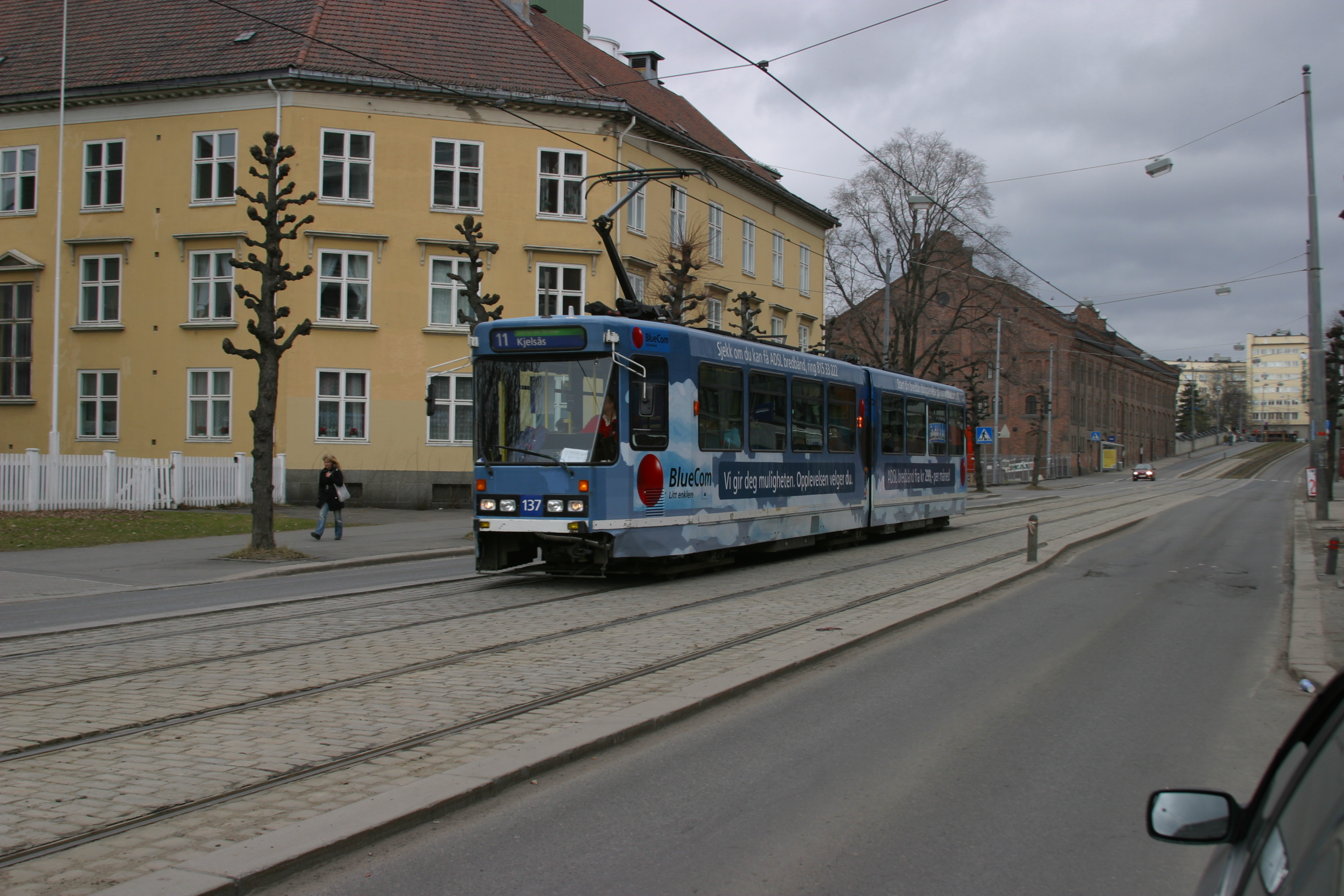 Picture of SL79-II # 137